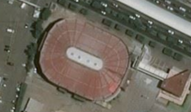 Satellite view